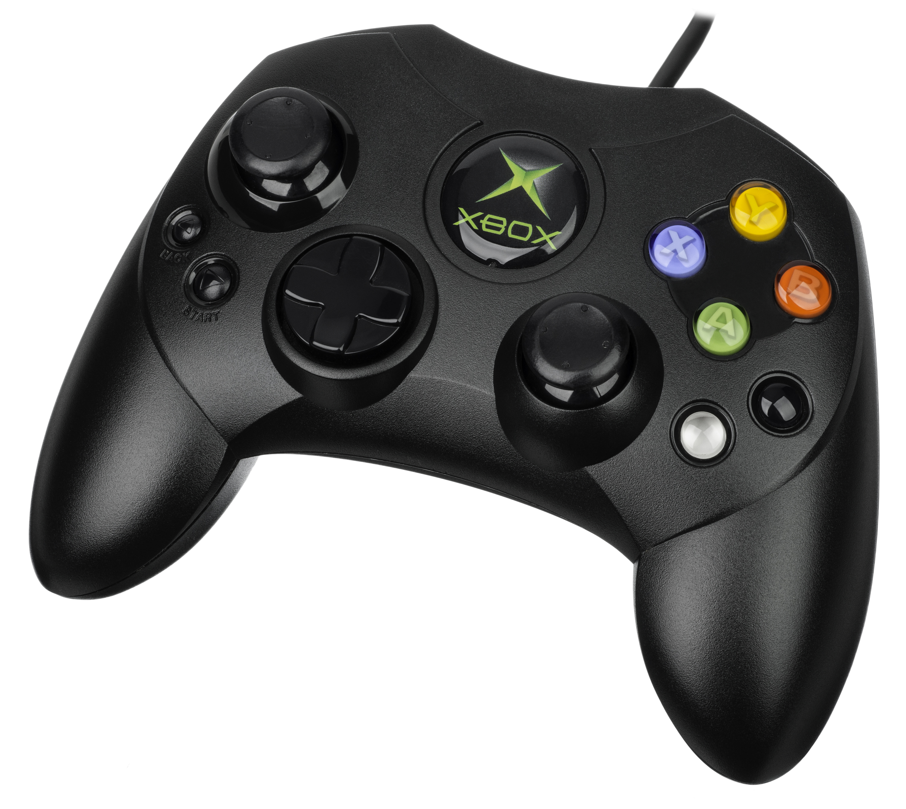 The controller for the Xbox, a sixth-generation gaming console made by Microsoft that was first released in 2001. The Xbox was Microsoft's first foray into the gaming console market, and was followed by the Xbox 360 in 2005. The console is notable for having a built-in hard drive, breakaway controller dongles and an Ethernet port to support Microsoft's online gaming service, Xbox Live. This picture shows the "S" controller, which replaced the "Duke" controller that was packed in with the system when it was first released. It is much smaller and features a more ergonomic design compared to its predecessor.